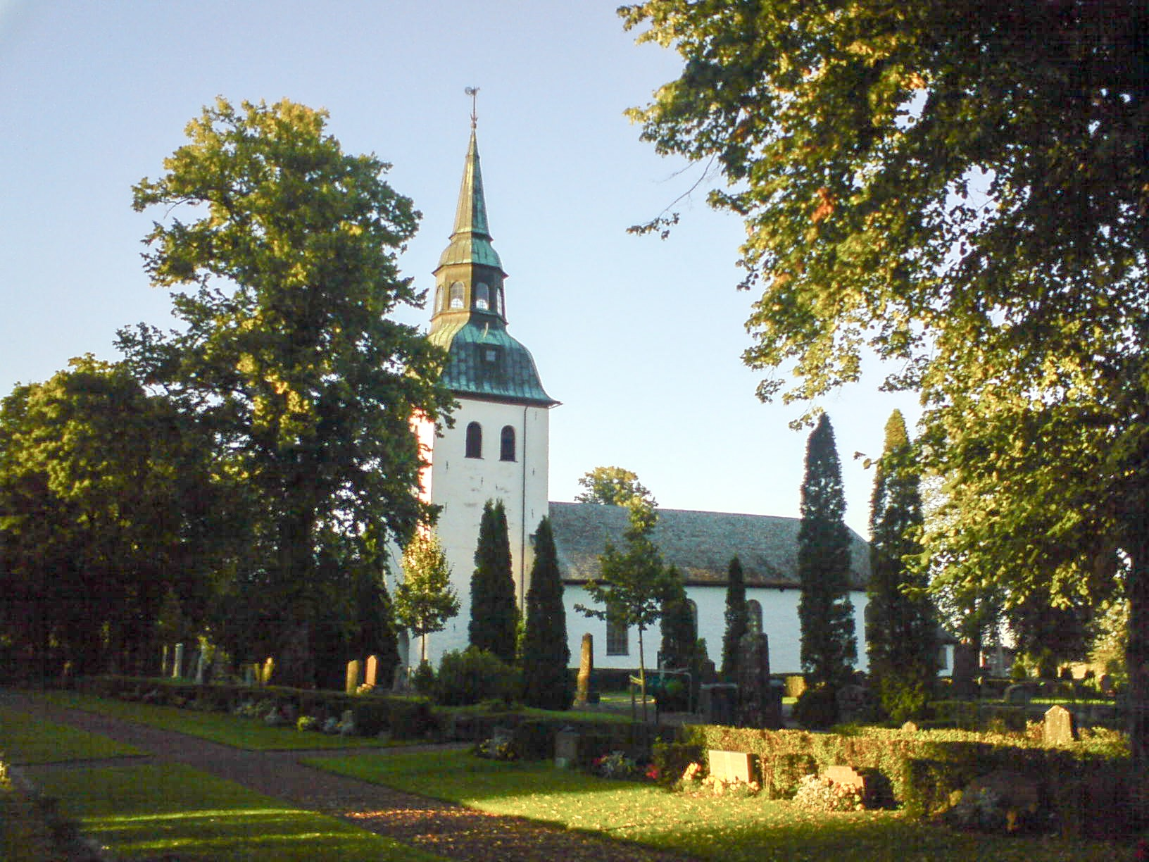 Parish church of Nor parish Nors församlingskyrka